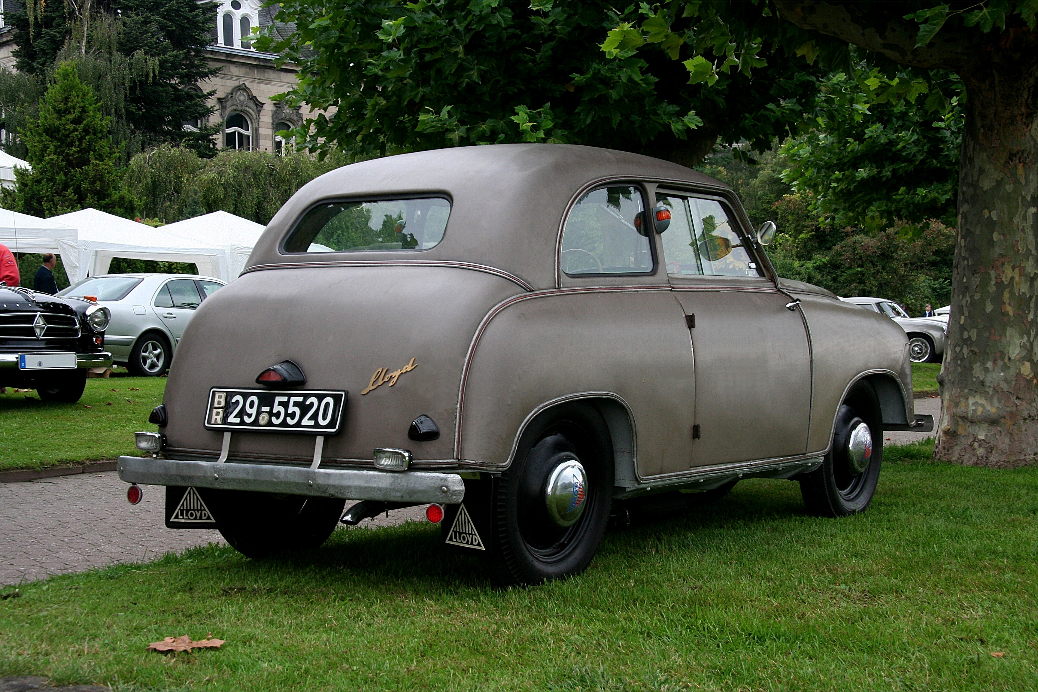 A 1950/51 Lloyd LP 300 series 1.